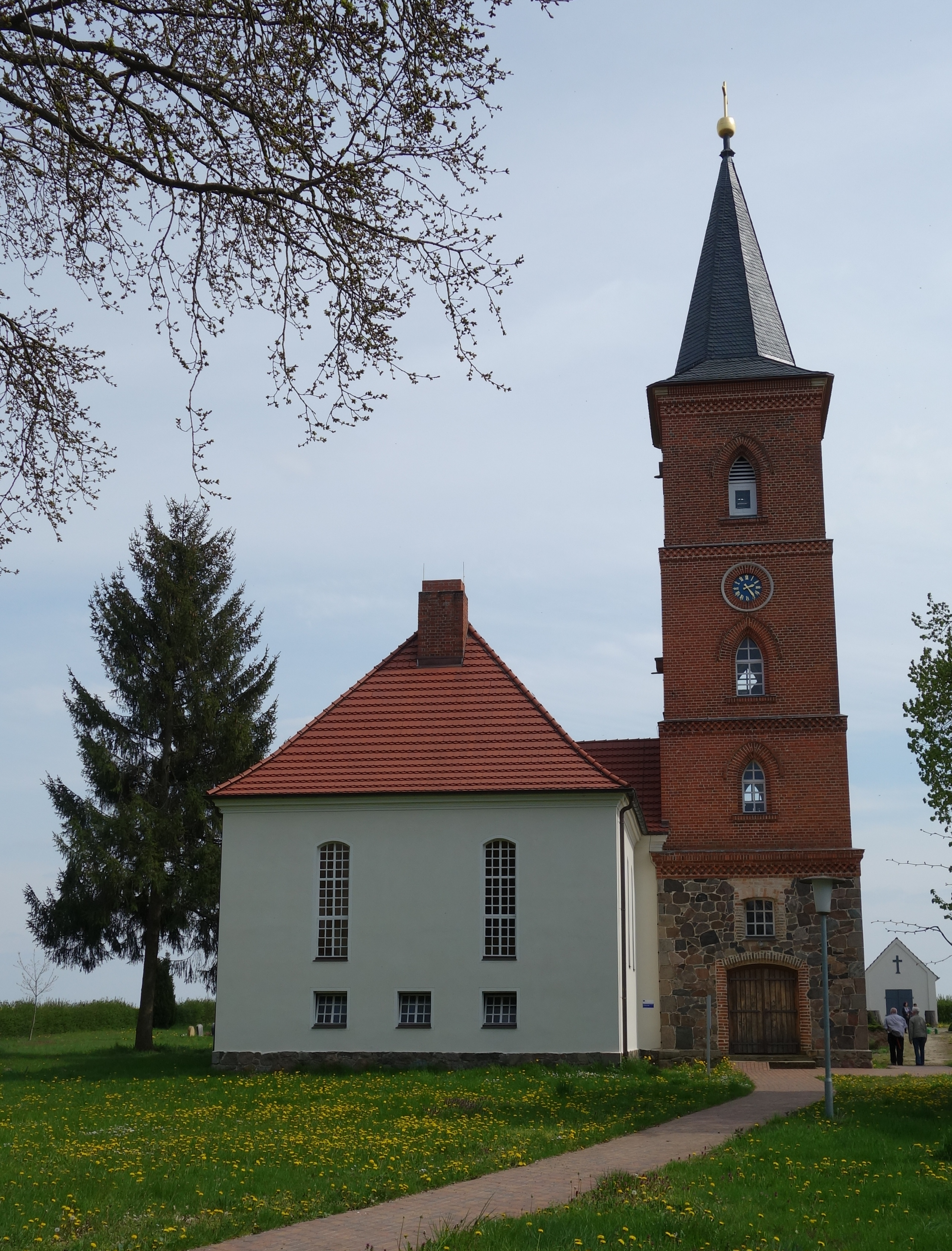 North-western view of church in Haage, Mühlenberge municipality, Havelland district, Brandenburg state, Germany.